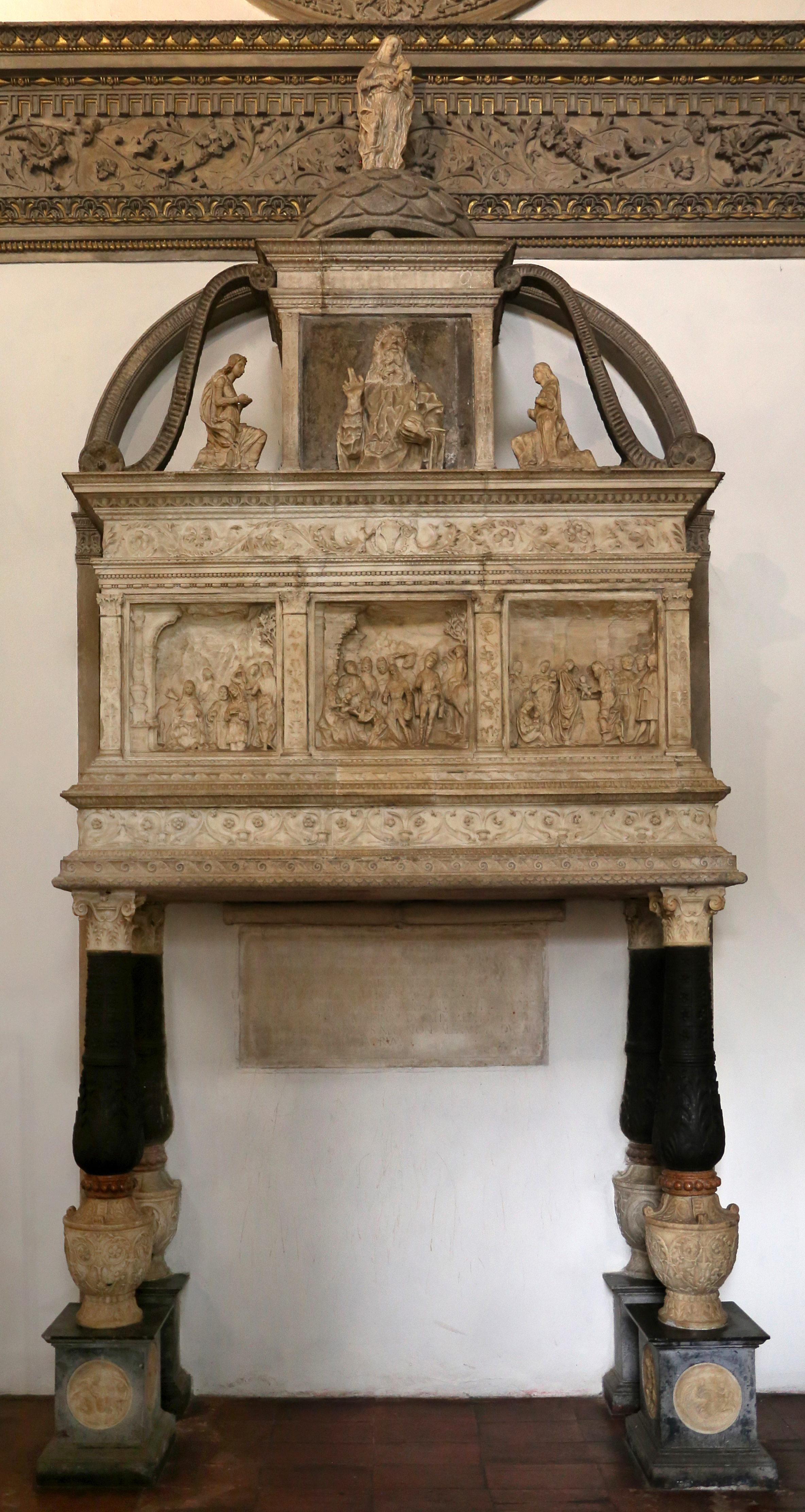 Sant'Eustorgio (Milan) - Chapels